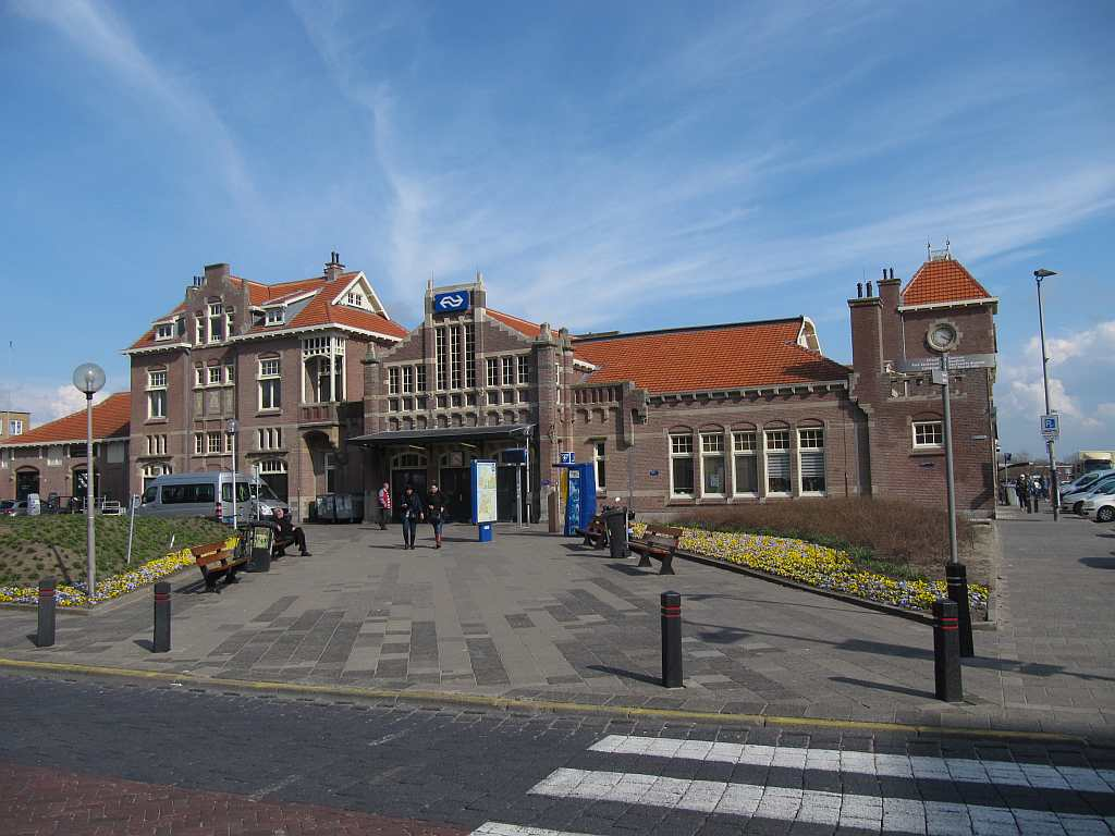 Train Station, Zandvoort, Noord Holland